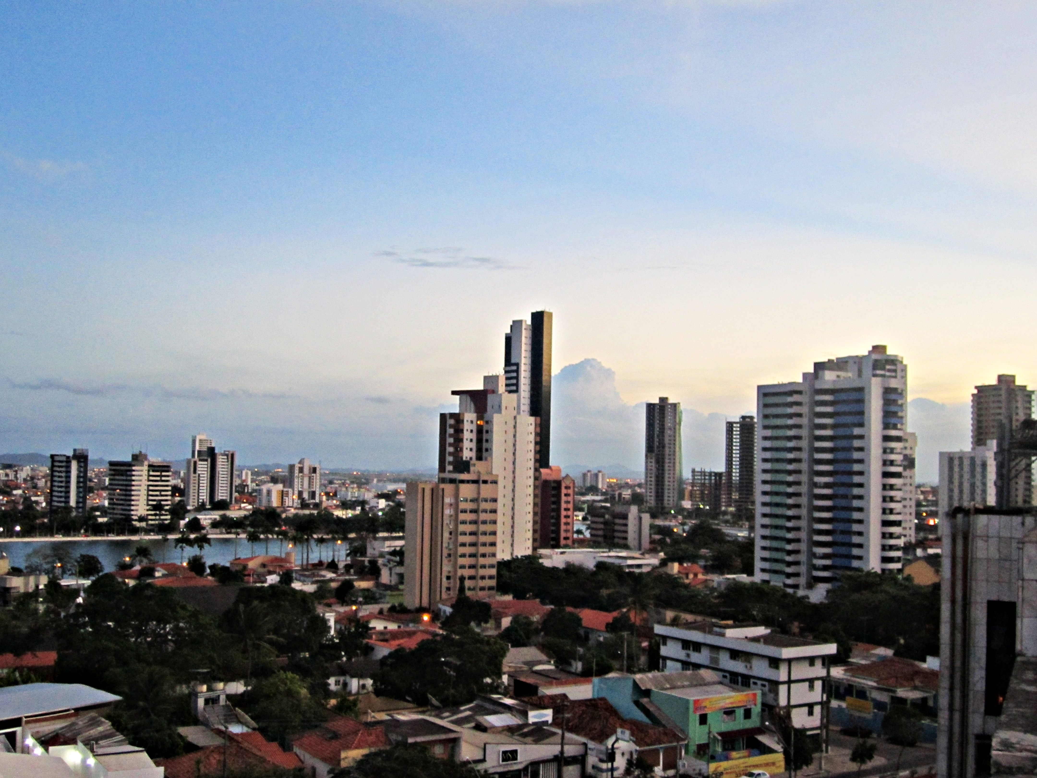 Campina Grande, Paraíba, Brazil